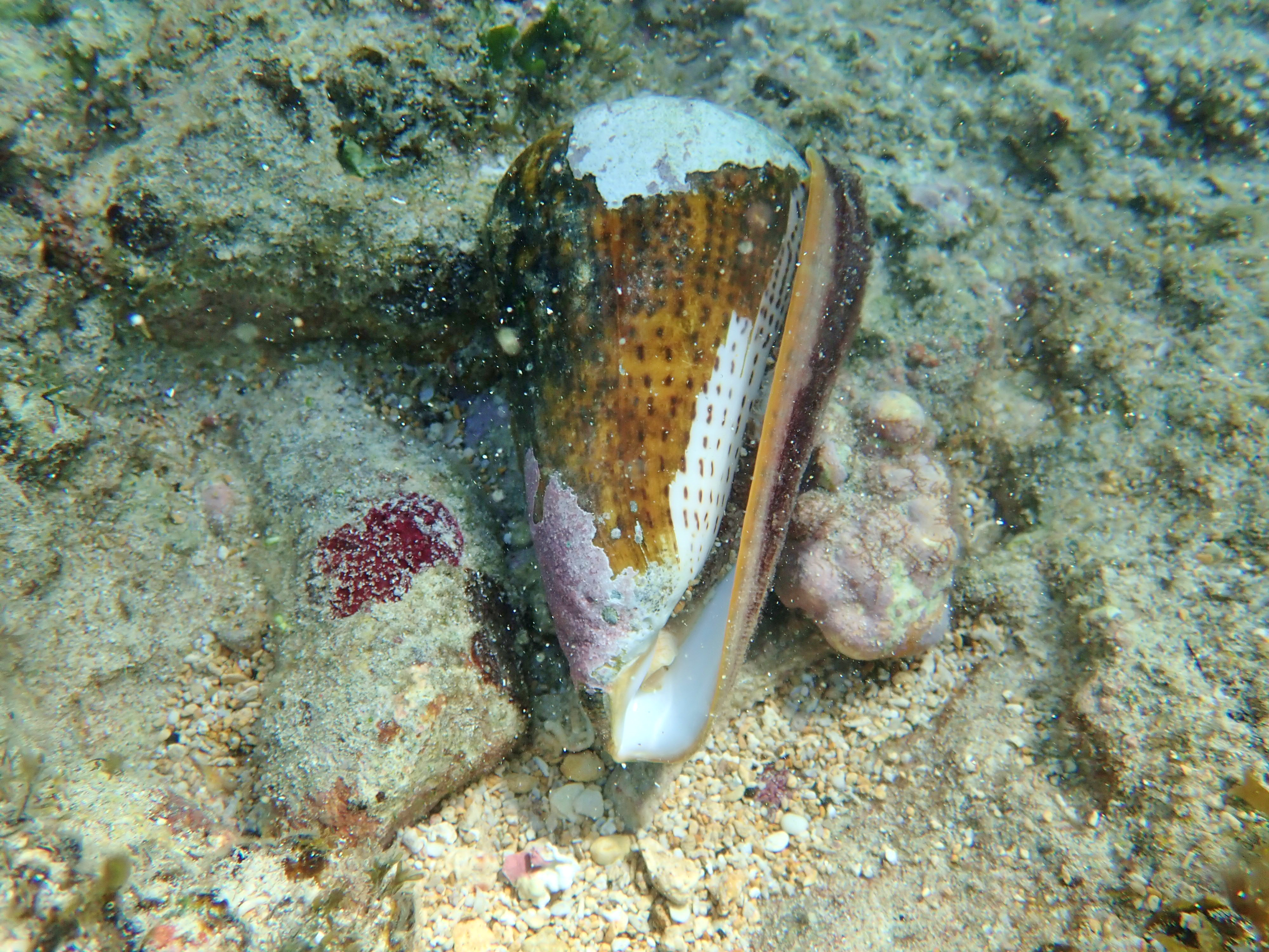 On this Conus leopardus, the periostracum is clearly visible, and lacking on some parts (white).